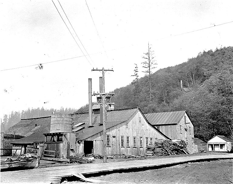 From John Cobb field notebook: Clam and salmon cannery of the Ellmore Packing Co. at Aberdeen, Wash. 1915 Subjects (LCTGM): Canneries--Washington (State)-- Aberdeen; Clams--Preservation--Washington (State)--Aberdeen Subjects (LCSH): Ellmore Packing Company; Salmon canning industry--Washington (State)--Aberdeen